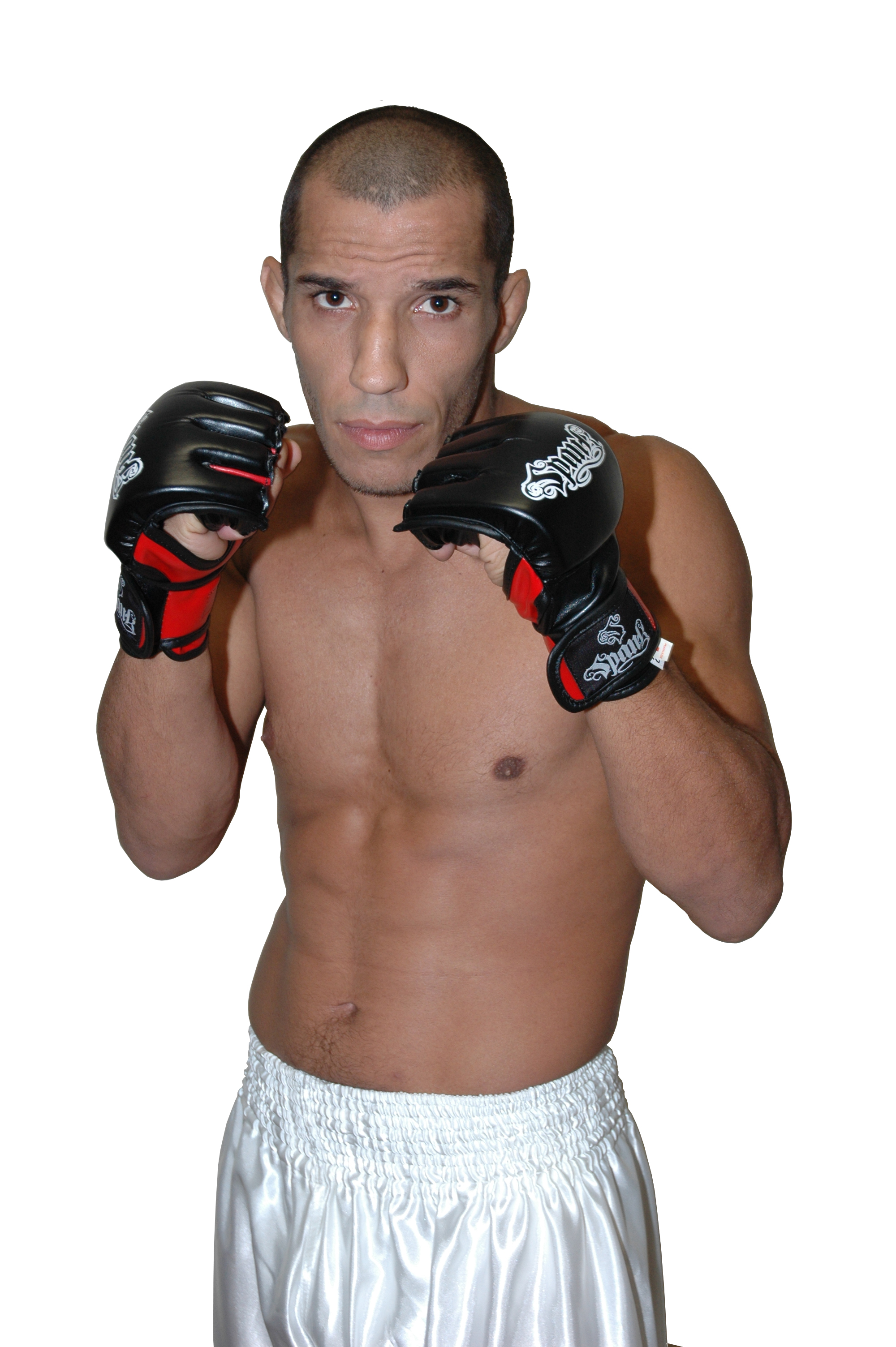 MMA Fighter